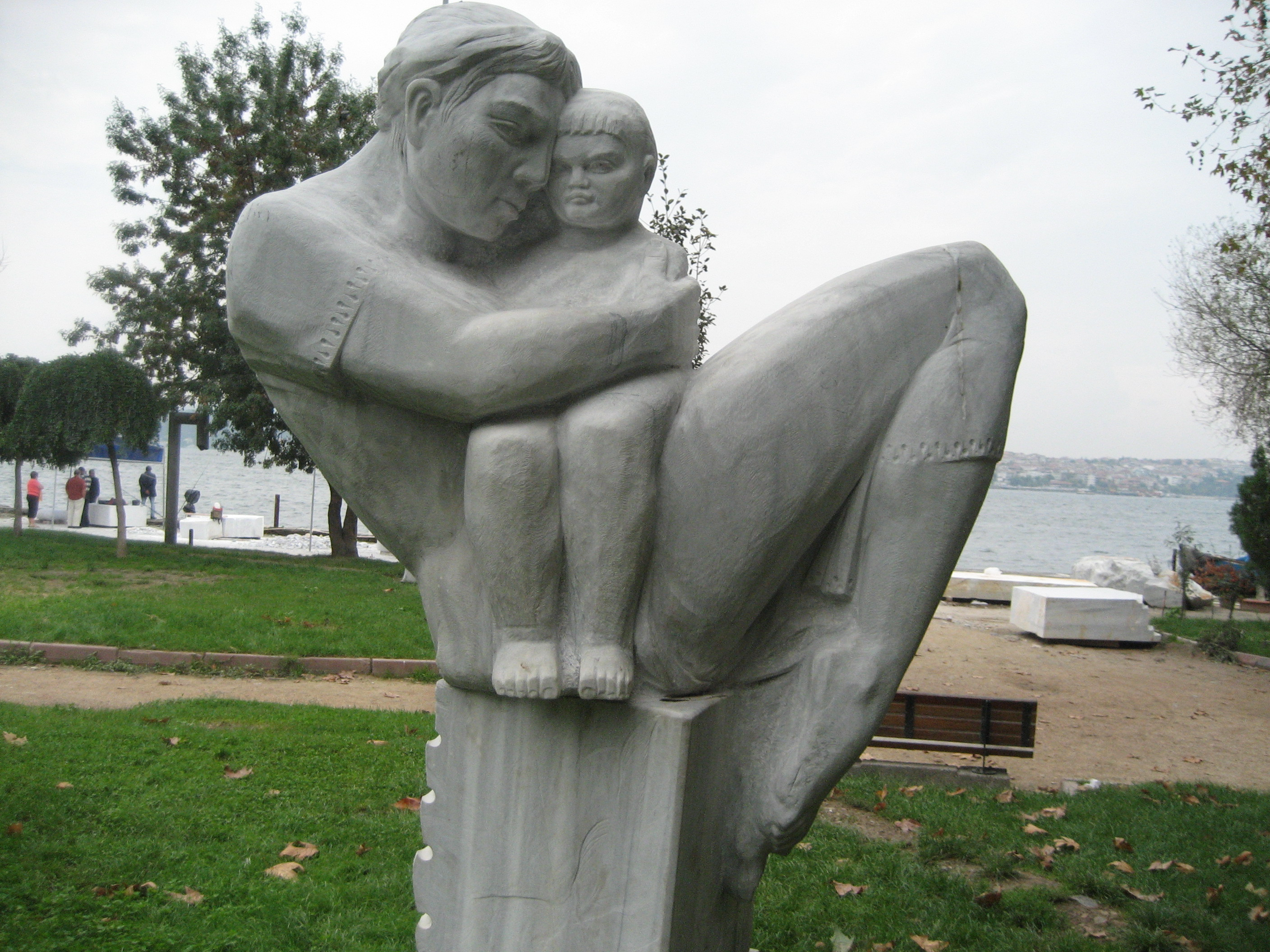 In the neighboring park, a finish sculpture in Kabataş, Istanbul, Turkey.